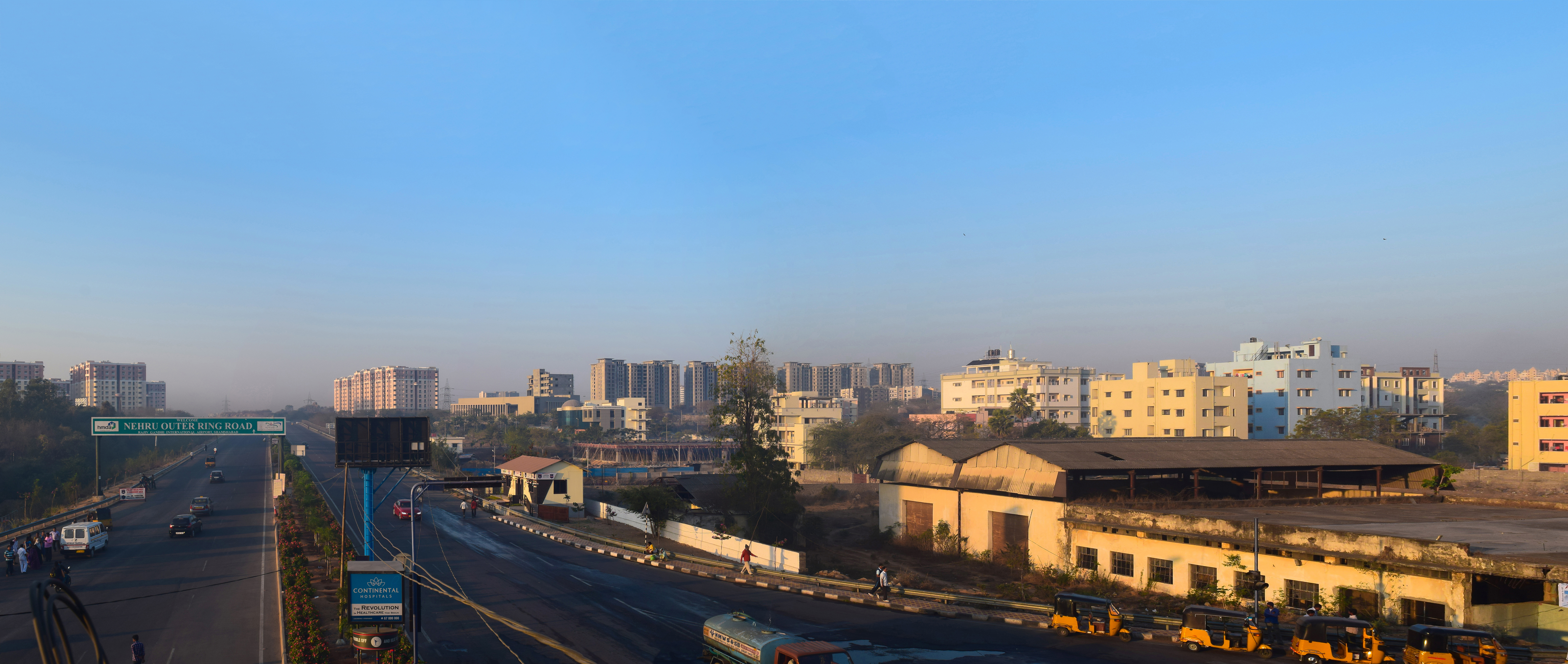 A panoramic view of Gachibowli, Hyderabad, India